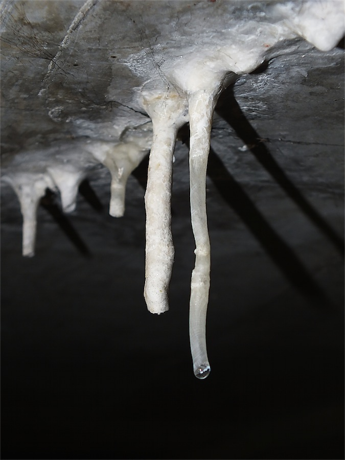 Calthemite straw stalactite (right side) has a bend due to air movement during its growth. This is a secondary calcium Carbonate deposit on concrete.